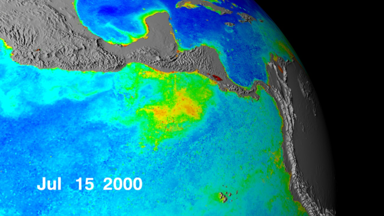 Biosphere Data Around the Costa Rica Dome